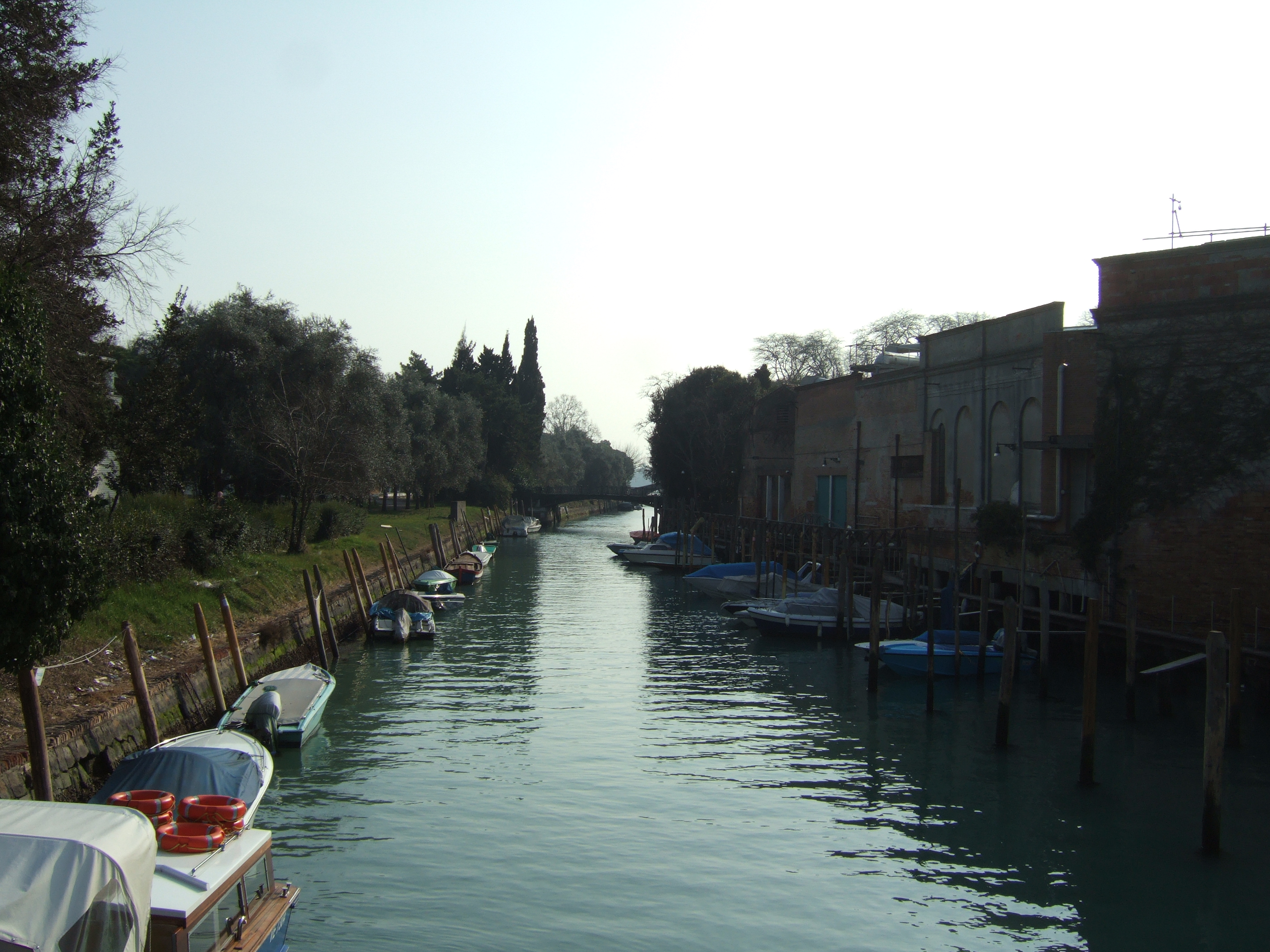 Rio dei Giardini south of Ponte del Paludo (Venice)